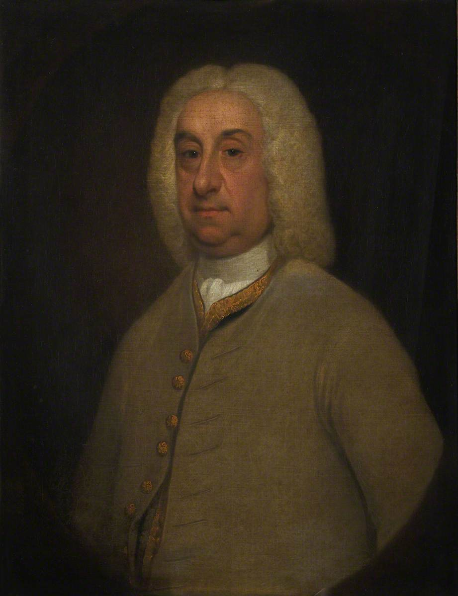 Moses Hart